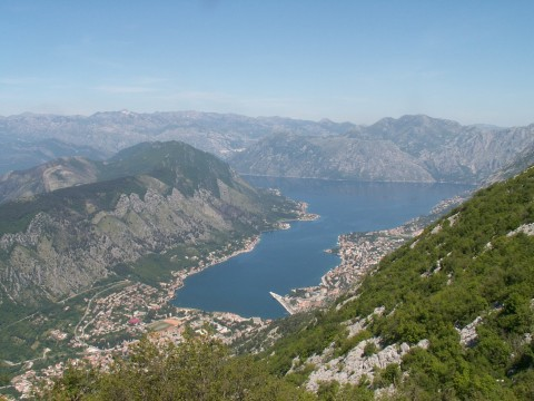 Kotor Bay seen from nearby mountain